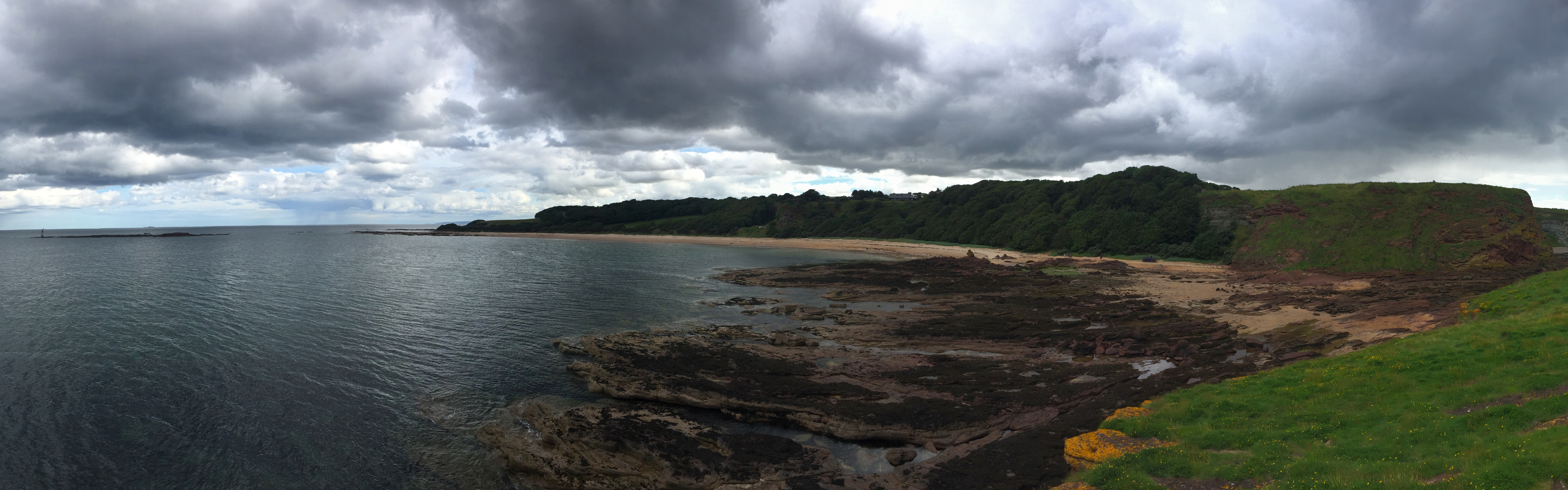 Photo of Seacliff beach, North Berwick